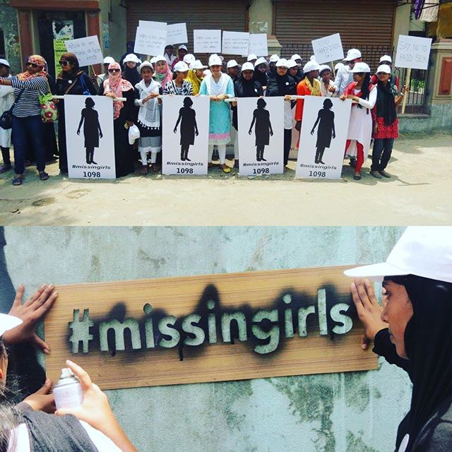 Rural girls working with the missing stencil project